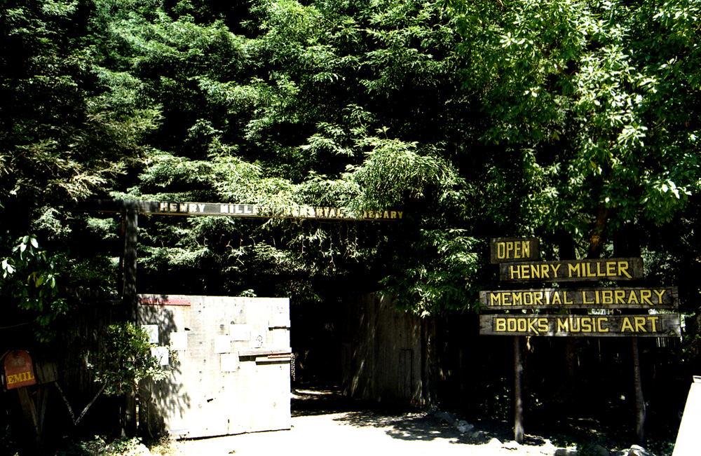 The Henry Miller Museum — in the middle of a Coast Redwood forest. Located on the Pacific Coast Highway—California State Route 1 in Big Sur, Northern California. Photo by Googie Man